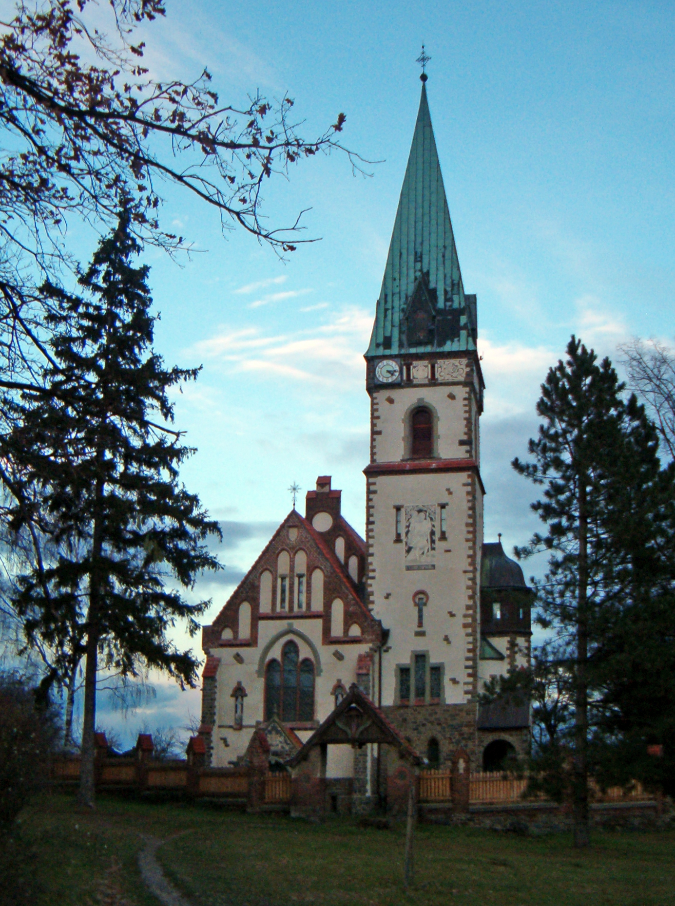 church in czech village Dolni Zivotice